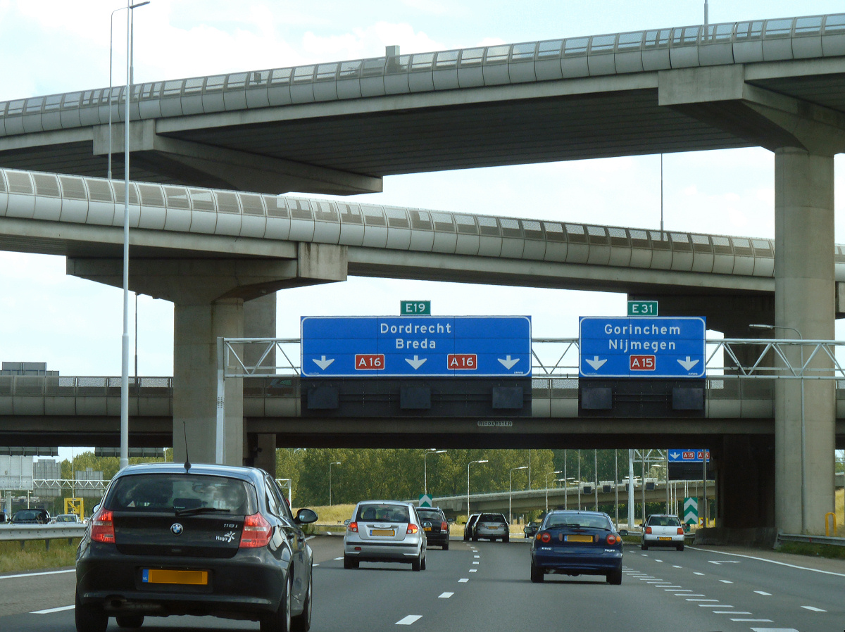 Motorway A16/E19 at interchange Ridderkerk-Noord, the Netherlands